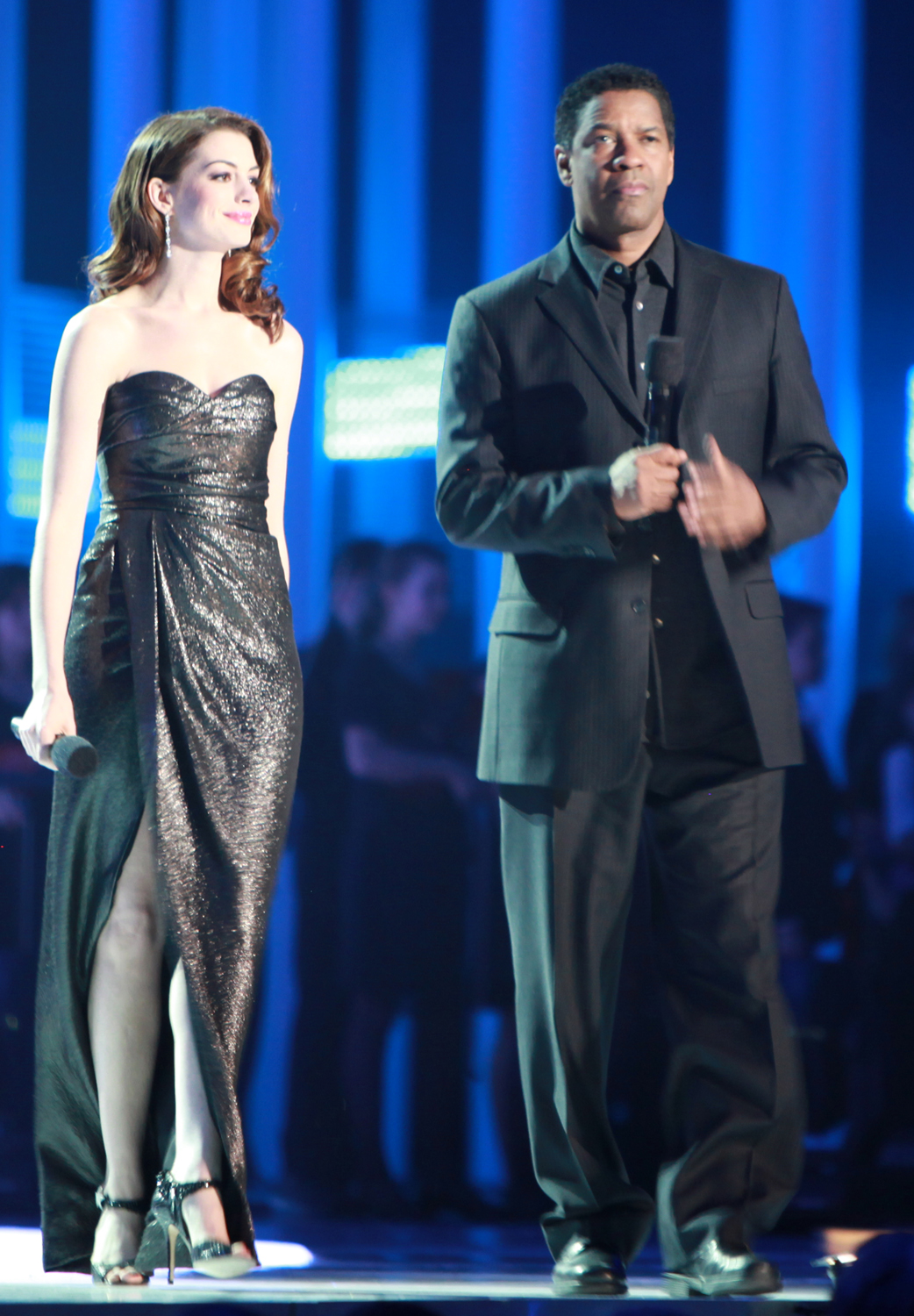 Denzel Washington and Anne Hathaway at The Nobel Peace Price Concert 2010